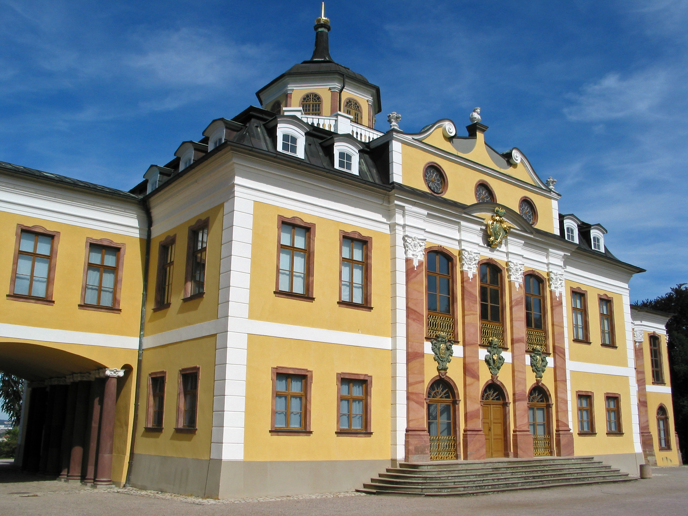 Germany, Weimar, Schloss Belvedere Südansicht des Schlosses Belvedere bei Weimar. Im Inneren befindet sich ein Rokoko-Museum.